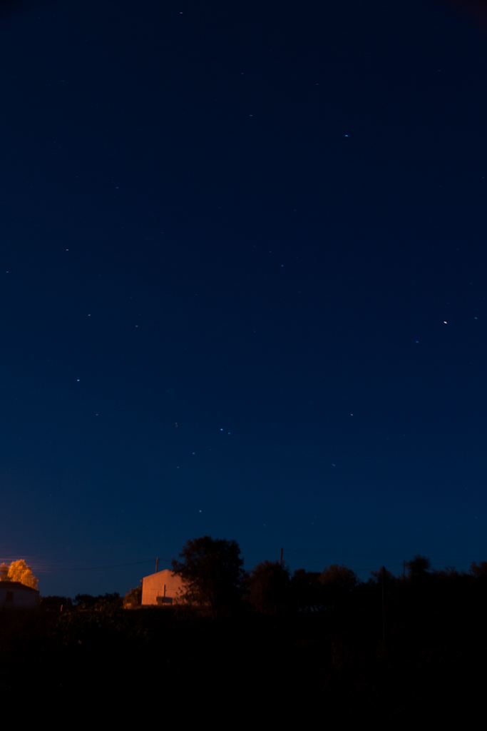 Unprocessed blue night with stars @ Alentejo